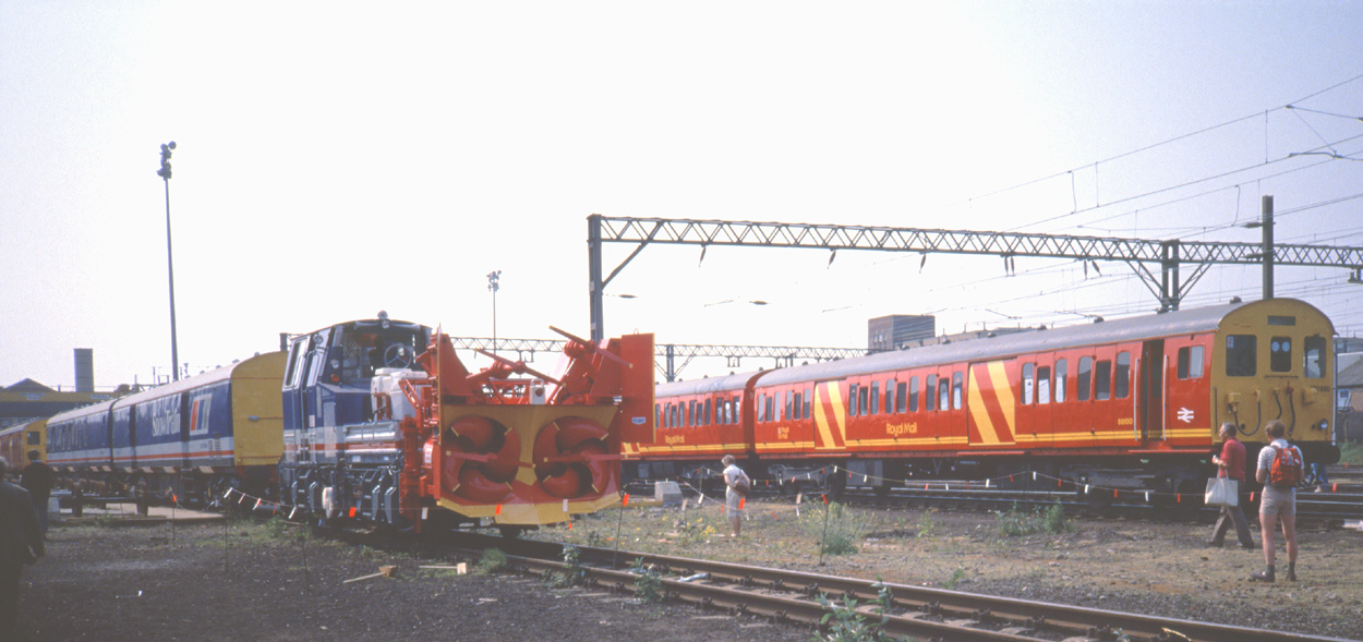 Class 302 train and the Network SouthEast Snowtrain at Ilford Depot open day in May 1989. The class 302 unit shown here is number 302990, this being one of four which in the early 1990s was modified for Royal Mail use.